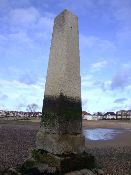 The Crowstone (2) This was erected in 1837 and replaced the original, smaller stone, dating from 1755. The Crowstone marks the end of Port of London's authority over the River Thames. It is an important landmark on this section of coast and can be walked out to when the tide is out. Behind are houses along Chalkwell Esplanade. 316113